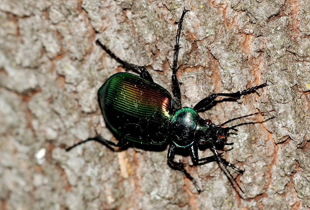 Calosoma sycophanta, Aigues-Mortes, Camargue, France